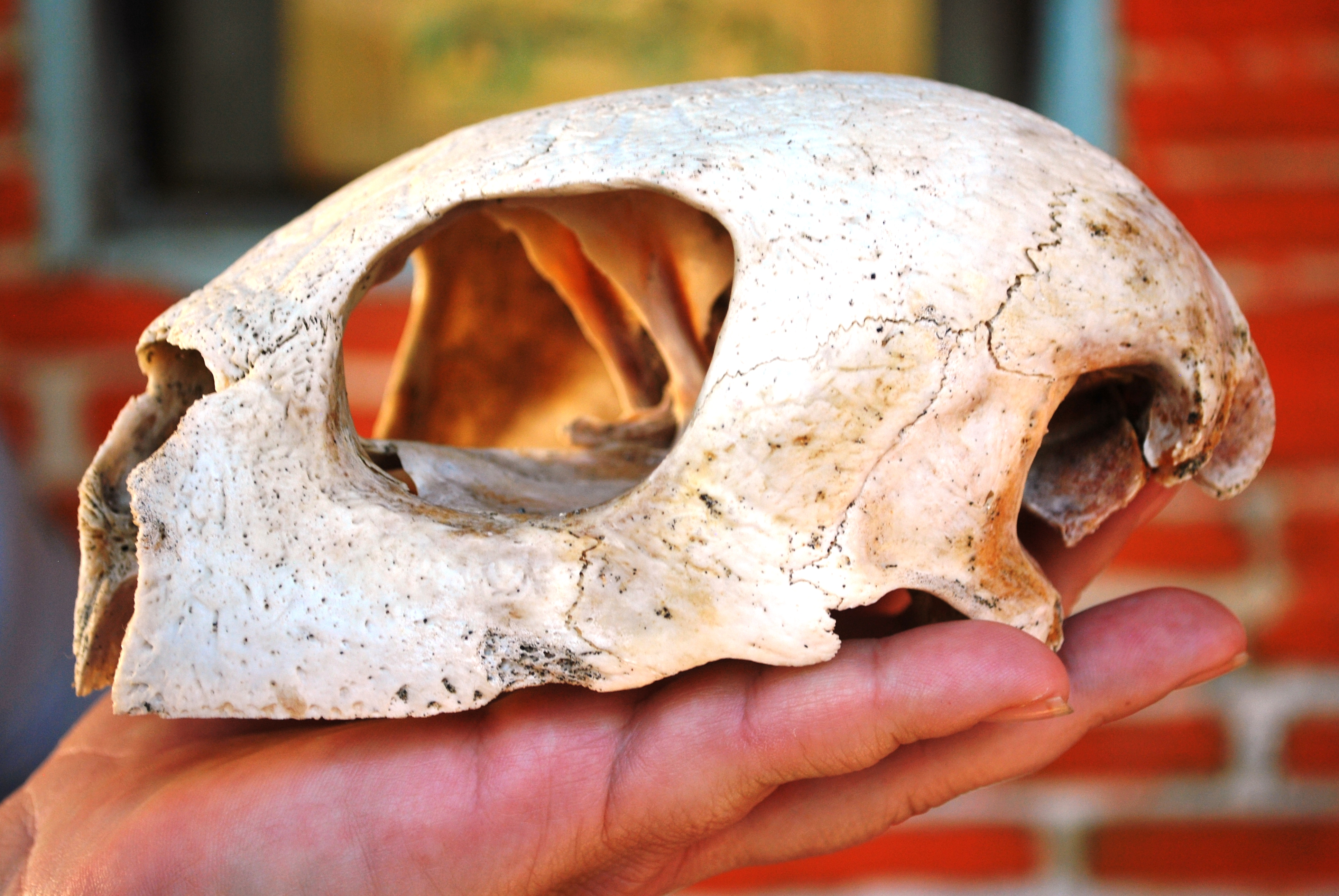 Sea turtle skull at the Puerto Arista turtle and alligator sanctuary in Puerto Arista, Chiapas